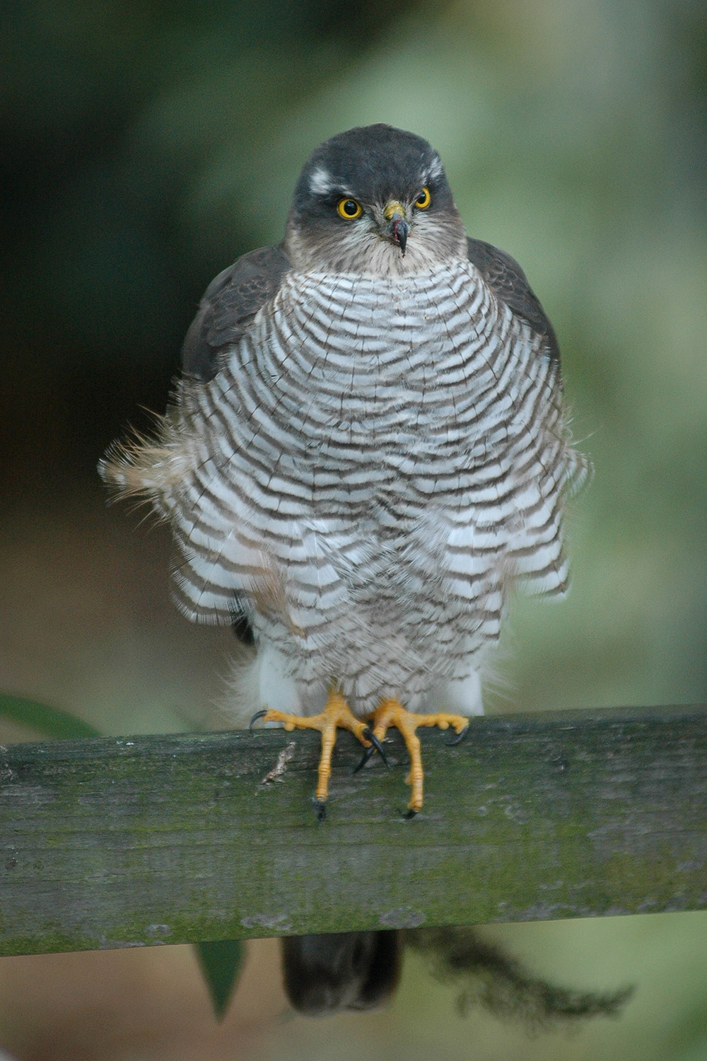 Eurasian Sparrowhawk Accipiter nisus, perching on fence, Betuwe, Gelderland, Netherlands